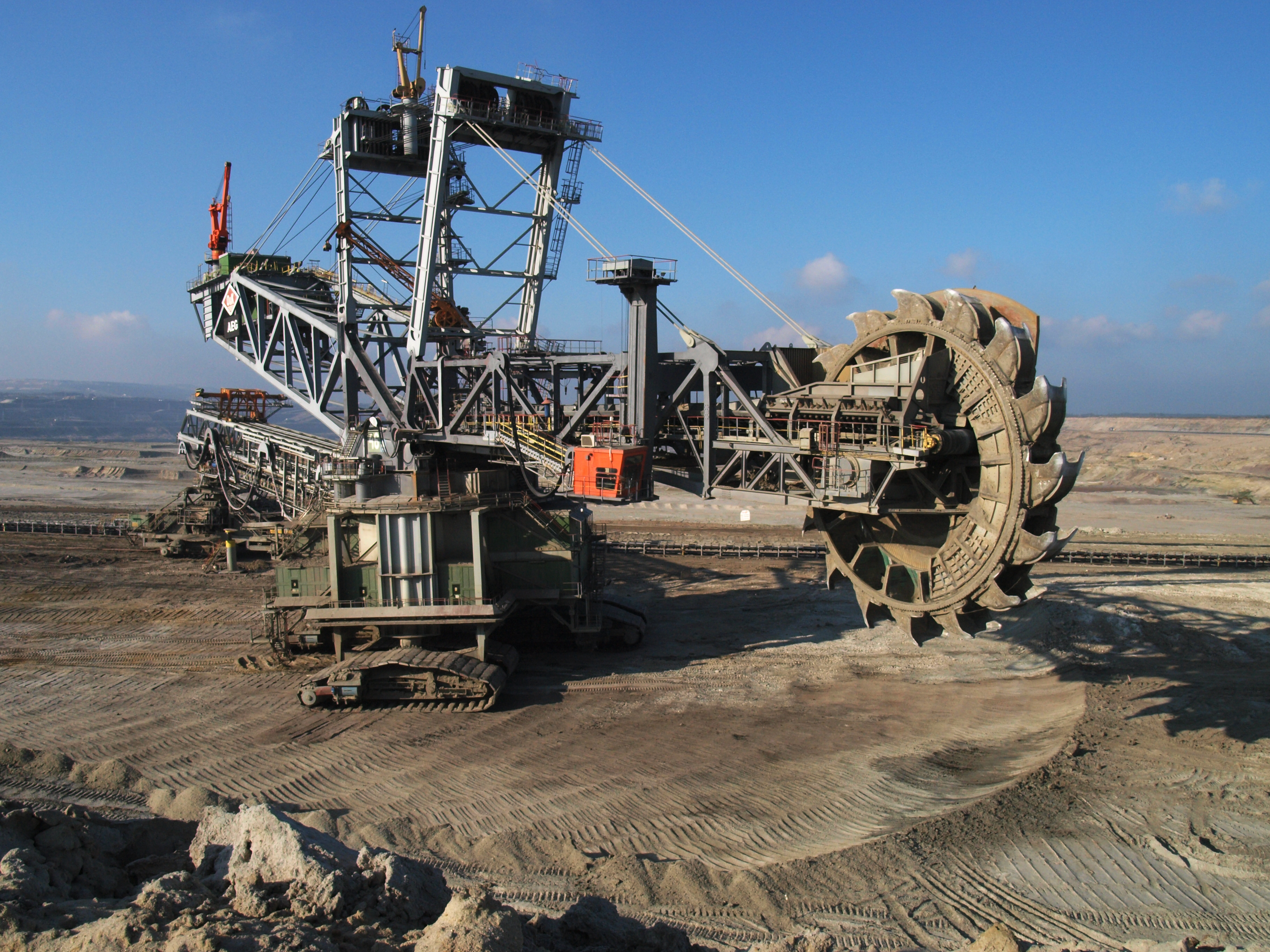 Bucket-wheel excavator, Bełchatów Coal Mine, Poland